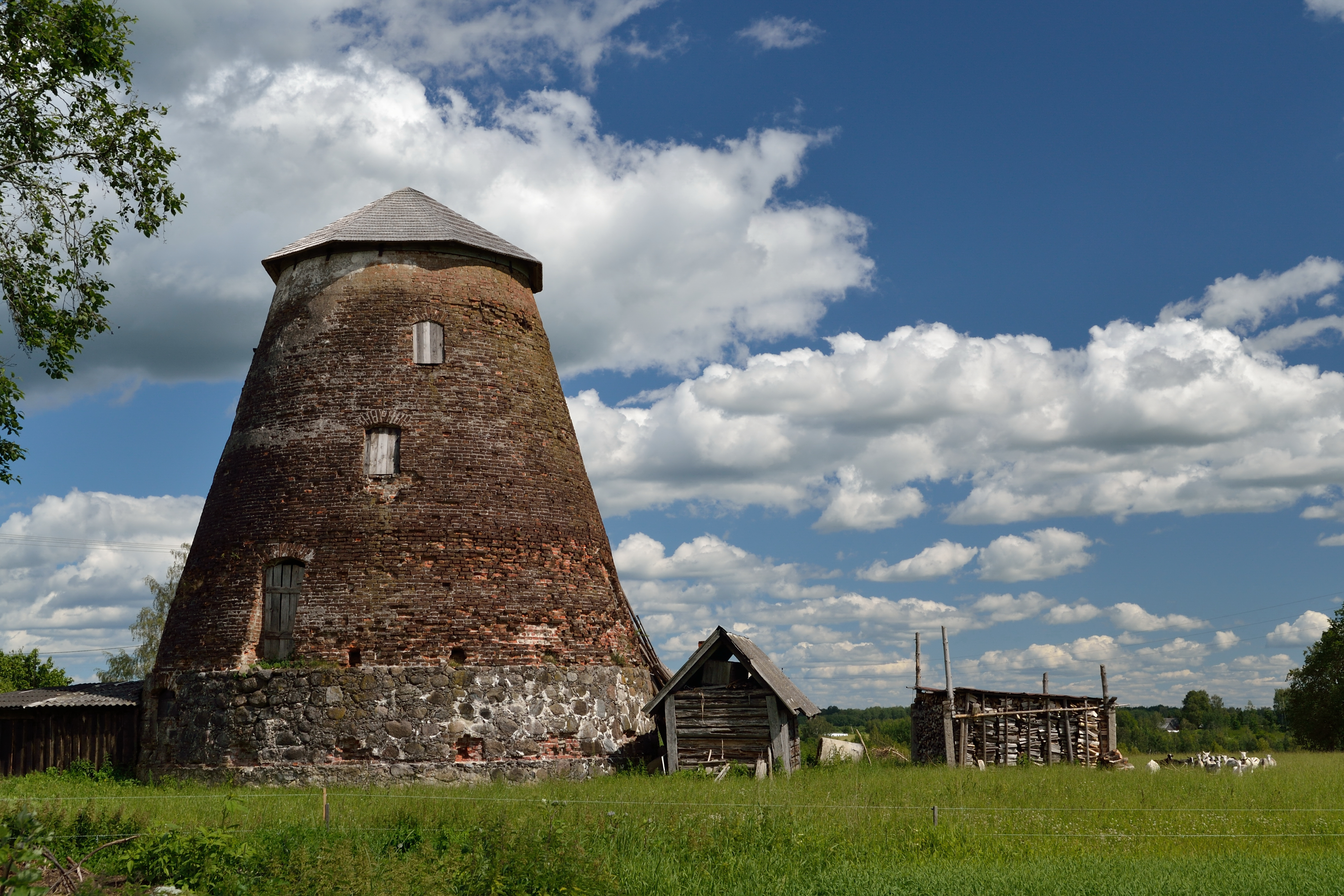 Kuigatsi manor windmill, today used as a goat barn.